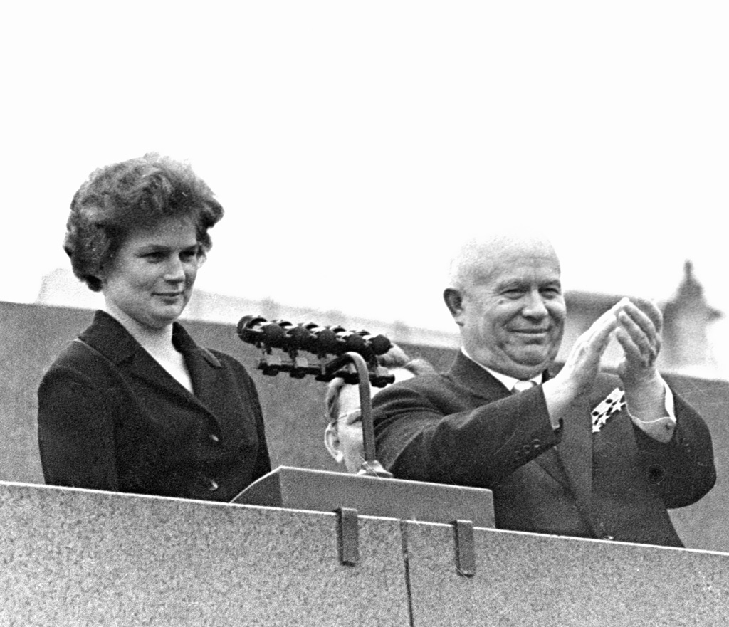 “Khrushchev and Tereshkova Attend Rally”. Soviet Communist Party First Secretary Nikita Khrushchev (right) and Valentina Tereshkova (left) during a rally dedicated to the successful completion of the flight of the Vostok-5 and Vostok-6 spacecraft.